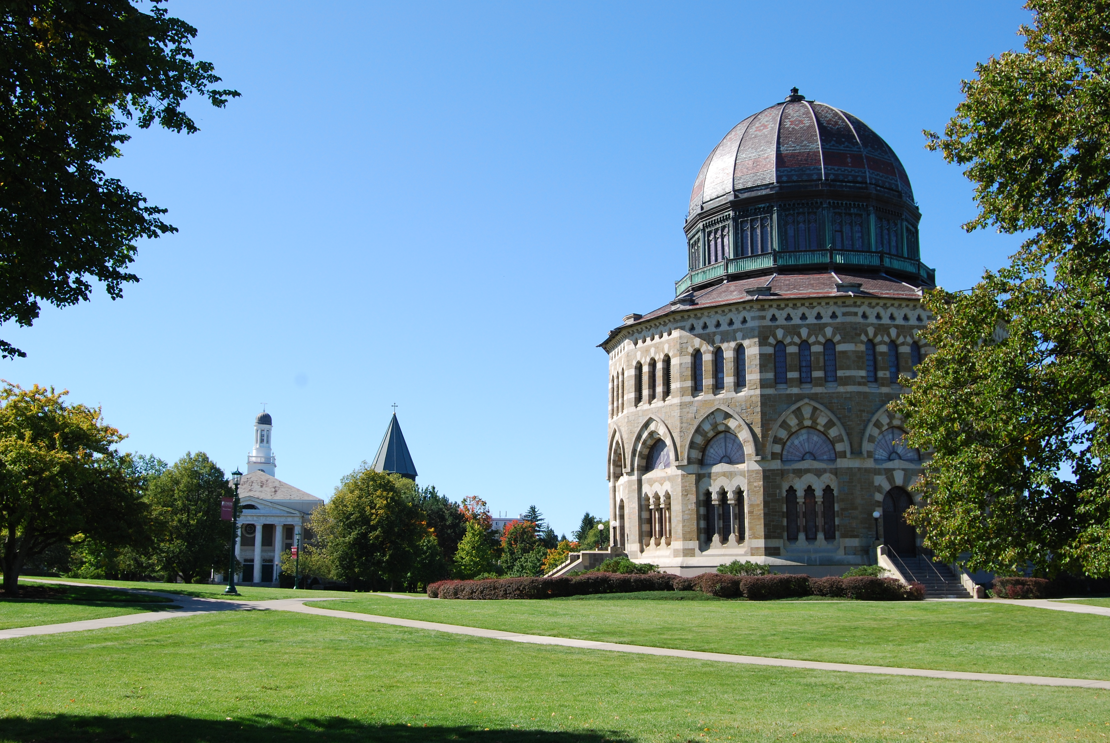 View of the Nott Memorial and Memorial Chapel on the campus of Union College in Schenectady, New York, United States